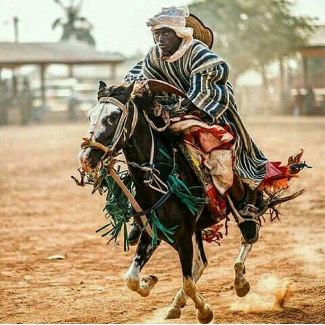 A horse rider displaying his skills during Gaani festival